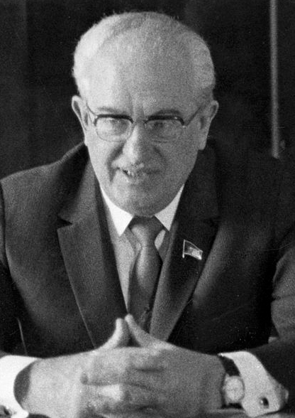 “Yury Andropov, Chairman of KGB”. Yury Andropov, chairman of USSR KGB.